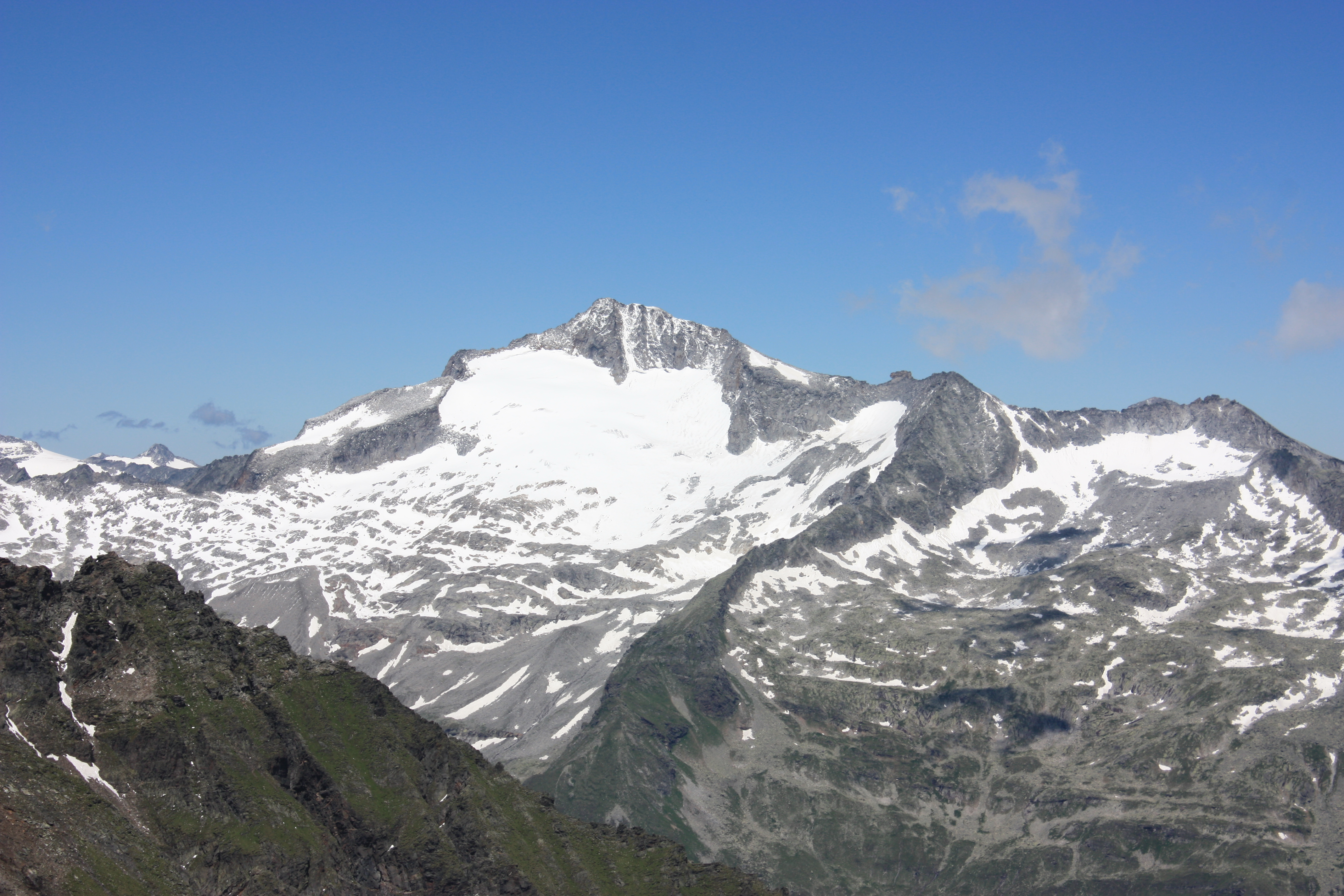 Hochalmspitze: Mountain in the Hohe Tauern (seen from the Reißeck)